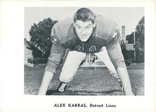 A promotional image of Detroit Lions player Alex Karras.